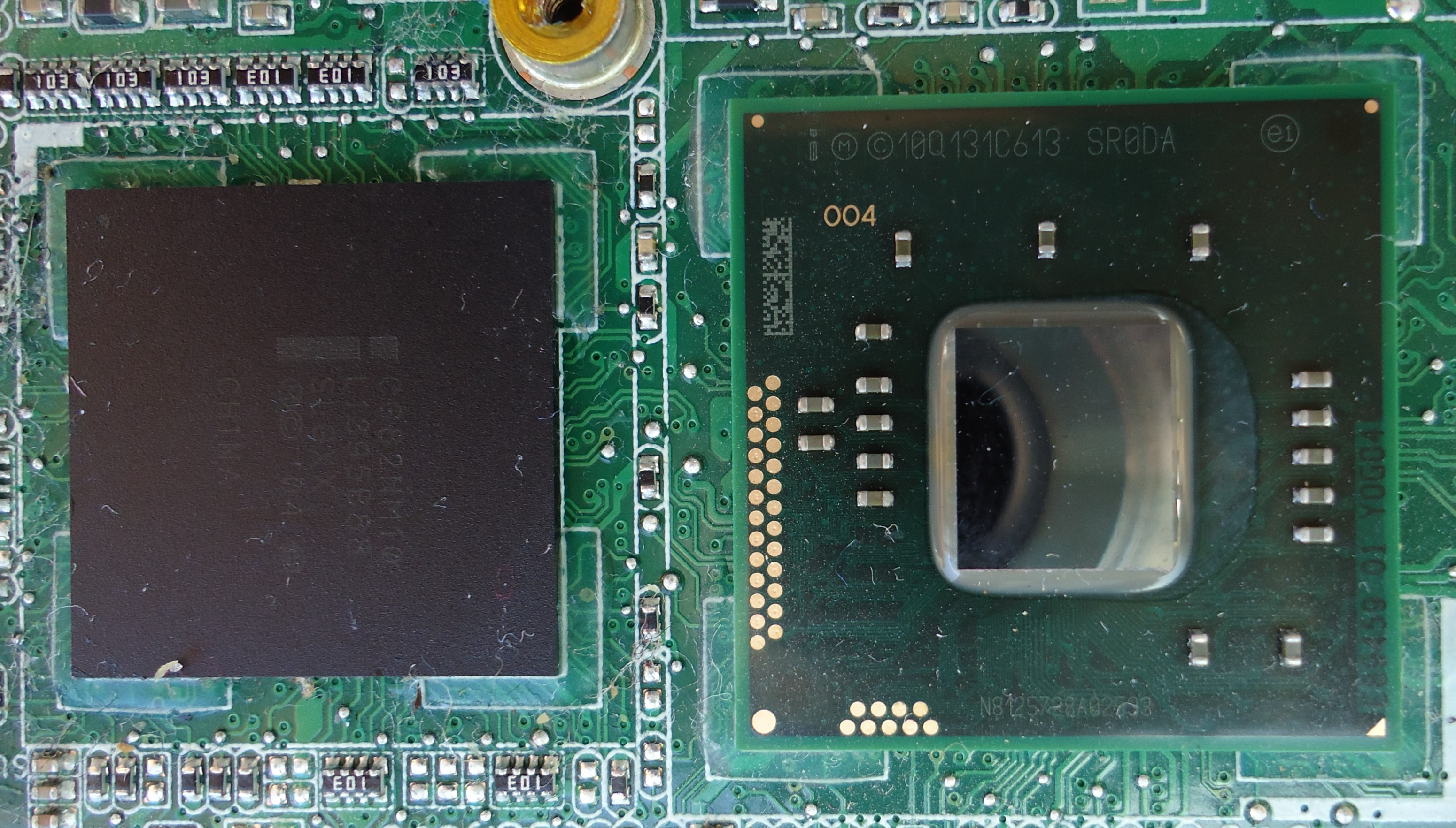 Intel Atom N2800 (right) and Intel NM10 Chipset (left).